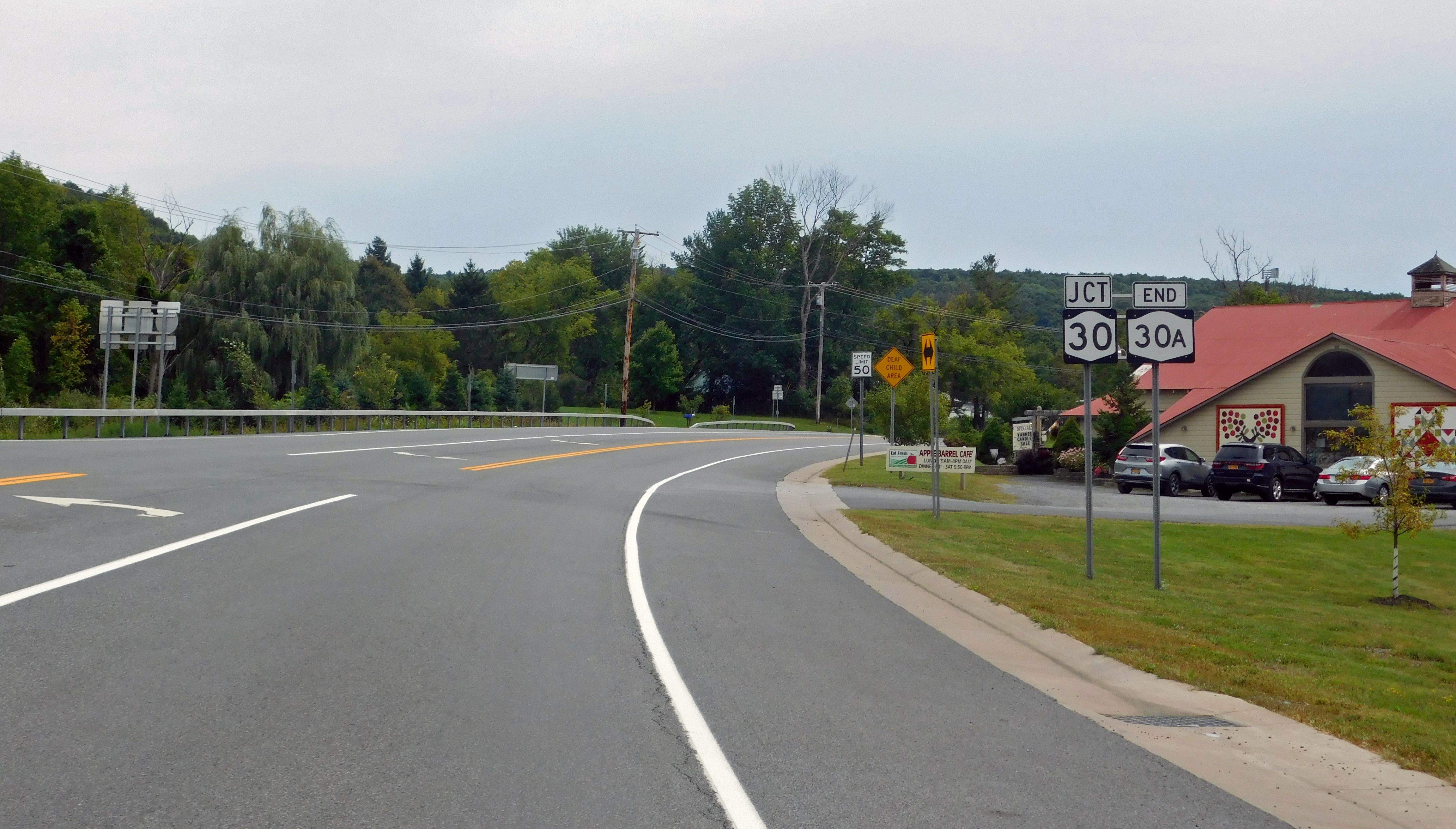 Junction of New York state routes 30 and 30A between Schoharie and Central Bridge, seen from its immediate north. Less than a month after it was taken, a stretch limousine crashed at this junction, having come down Route 30 at a high rate of speed, killing two people in the Apple Barrel Country store's parking lot (at right) and all 18 in the vehicle.